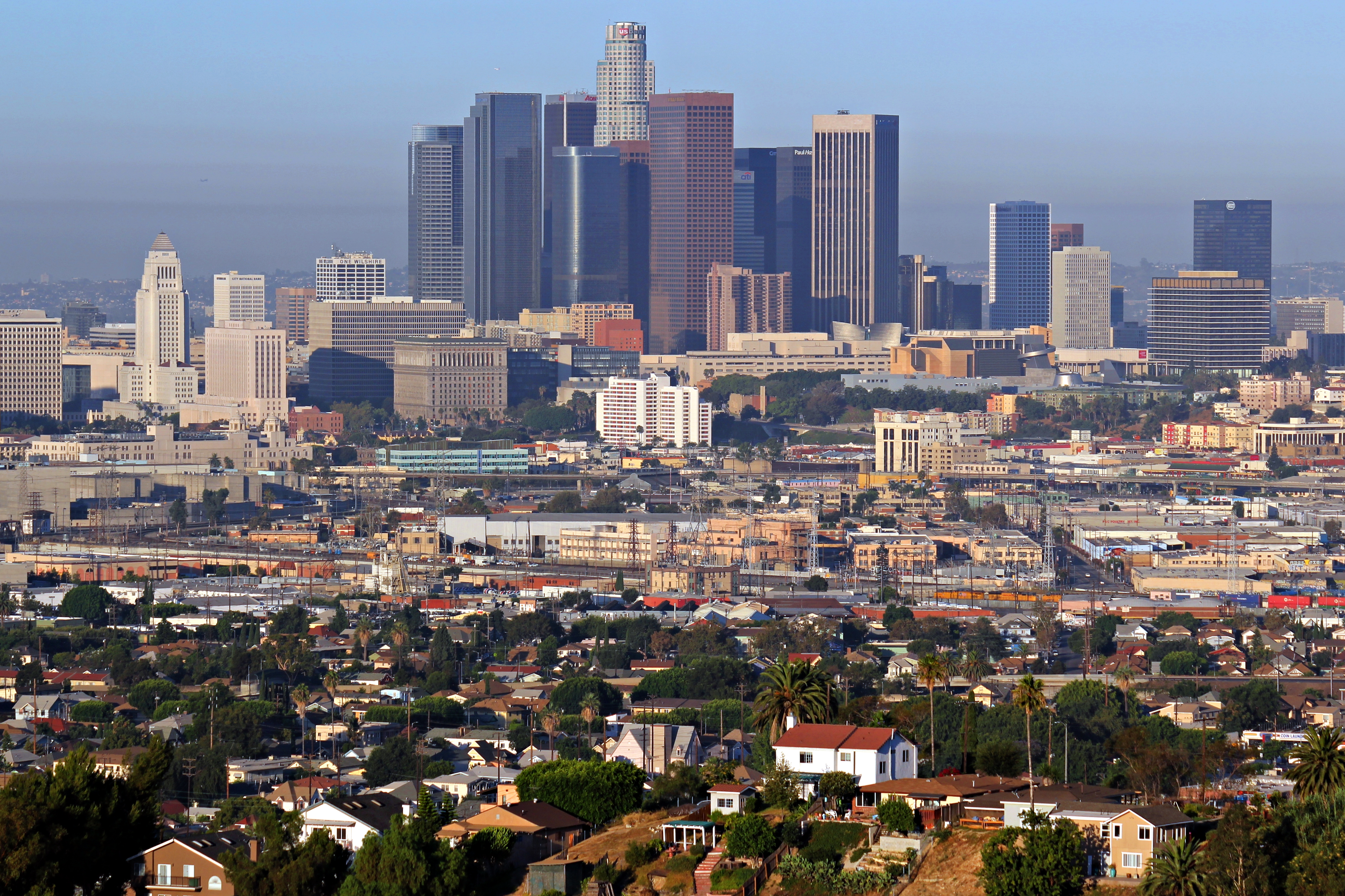 The skyline of downtown Los Angeles on a summer morning. Los Angeles, California, USA